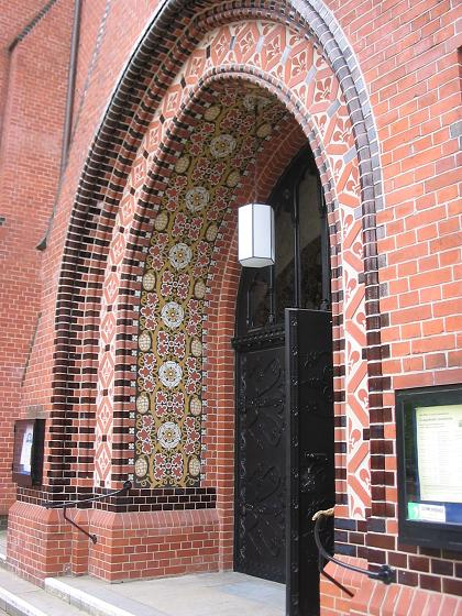 Porch of the Berlin church "Auenkirche"